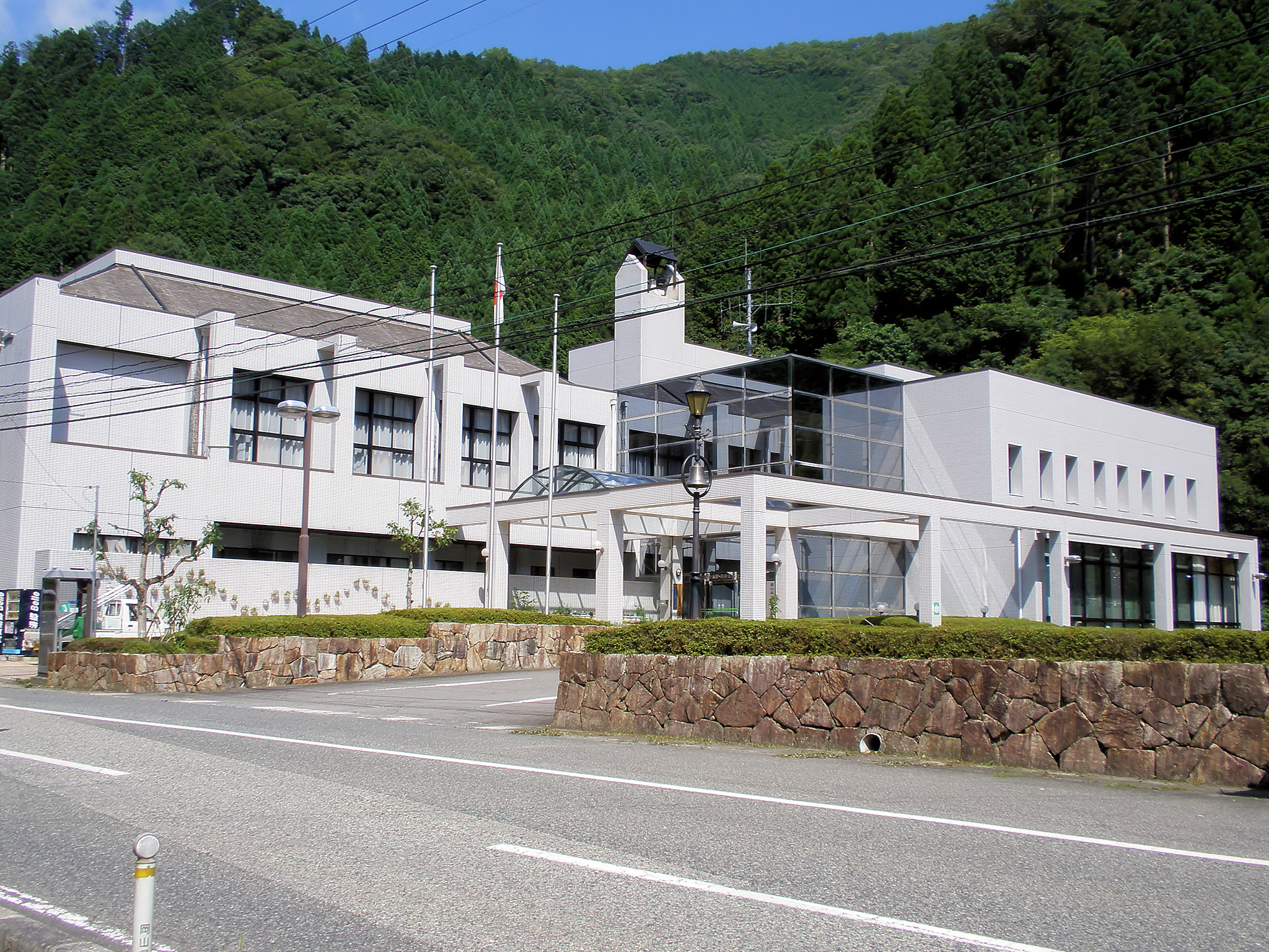 Mimasaka city office Higashiawakura branch Former Higashiawakura village office (1988.11 - 2005.3.30)